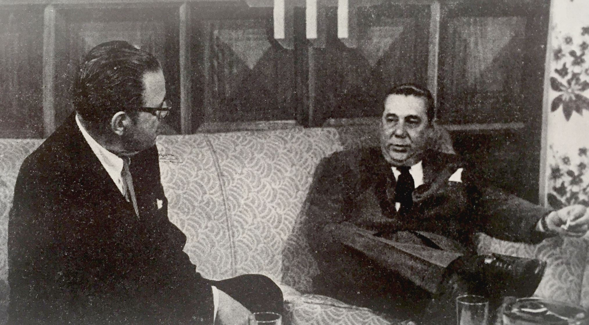 El escritor Mariano Picón Salas (1901-1965) y el entonces ministro de Relaciones Interiores, Numa Quevedo (1908-1981), en el programa de televisión La Hora Nacional, transmitido por Radio Caracas Televisión.